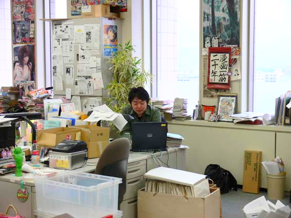 Editors' office of Afternoon manga magazine, at Kodansha HQ in Tokyo, Japan.